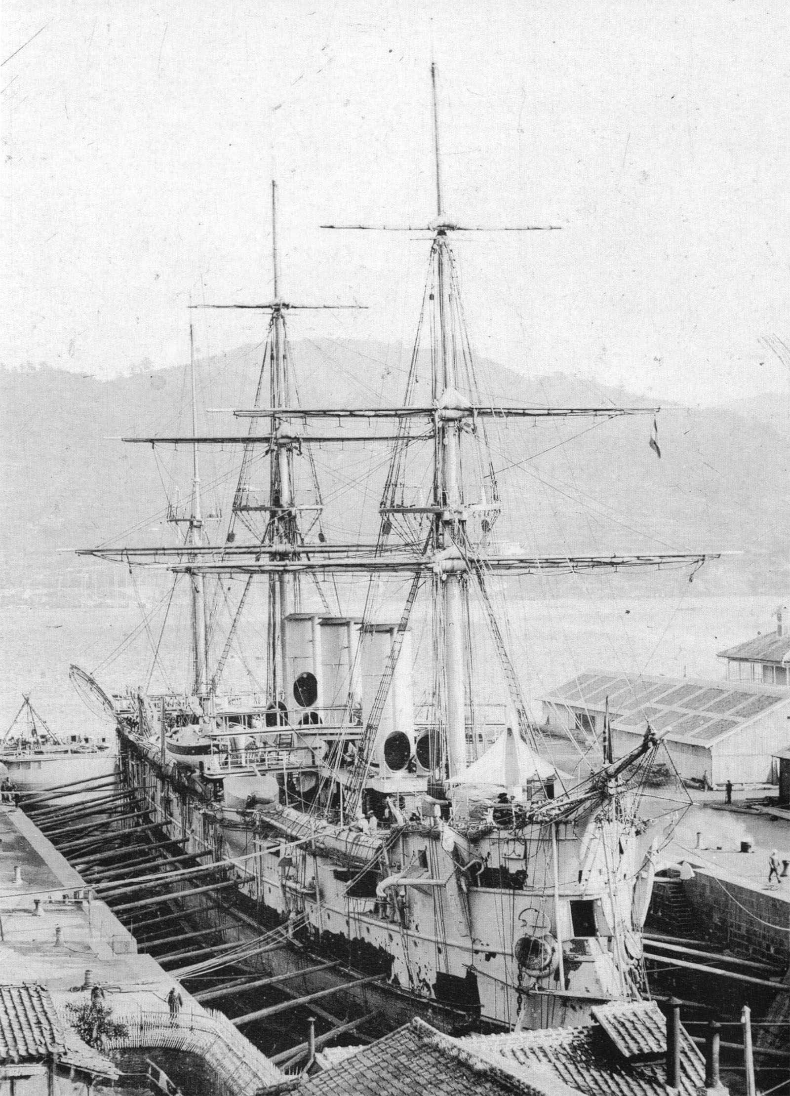 Imperial Russian cruiser Pamyat' Azova in Nagasaki, 1890's.